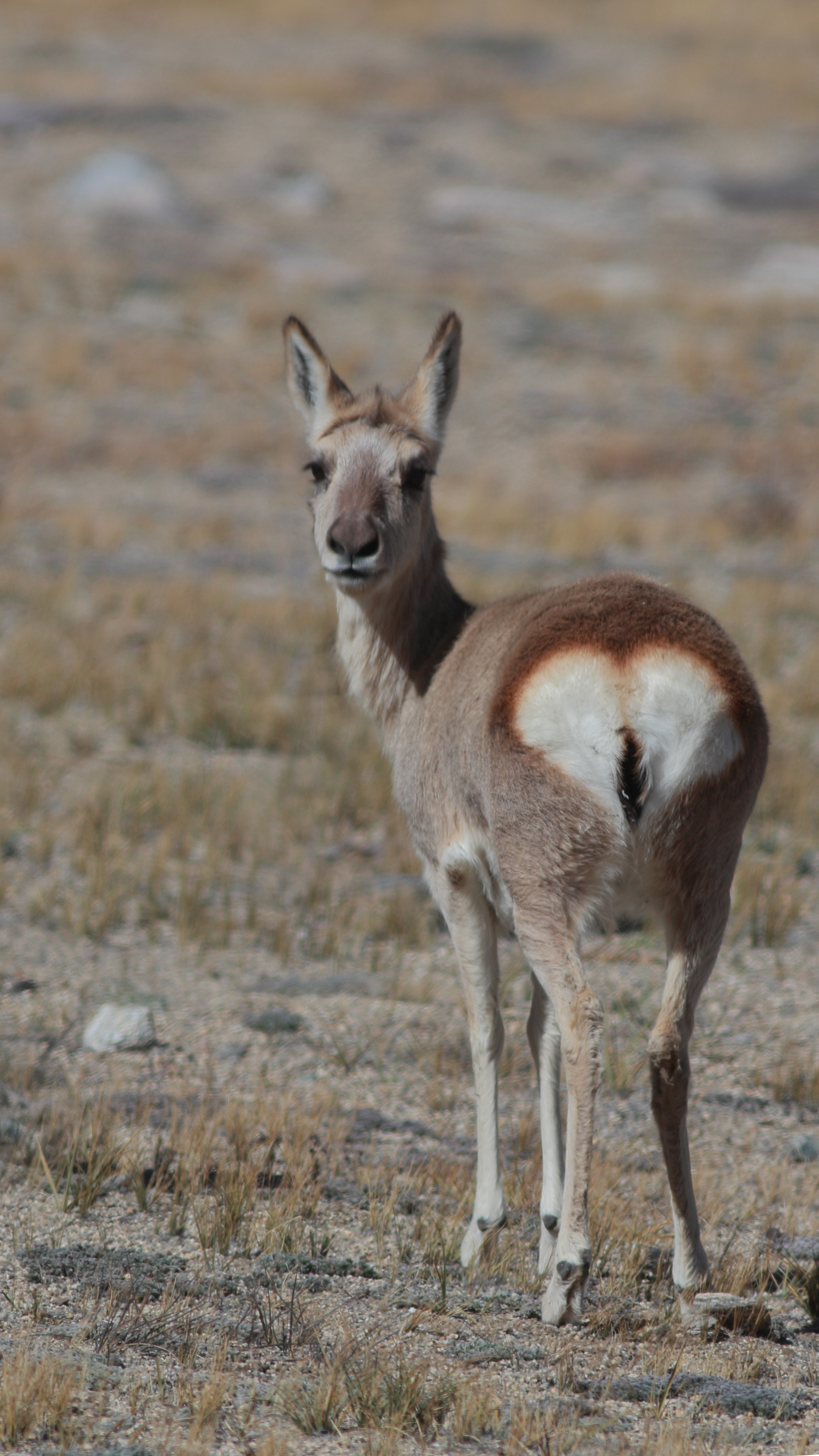 The species Tibetan Gazelle or Goa (Antelope) had been photographed from North Sikkim, India on 16.10.2019 during the wildlife photography tour.